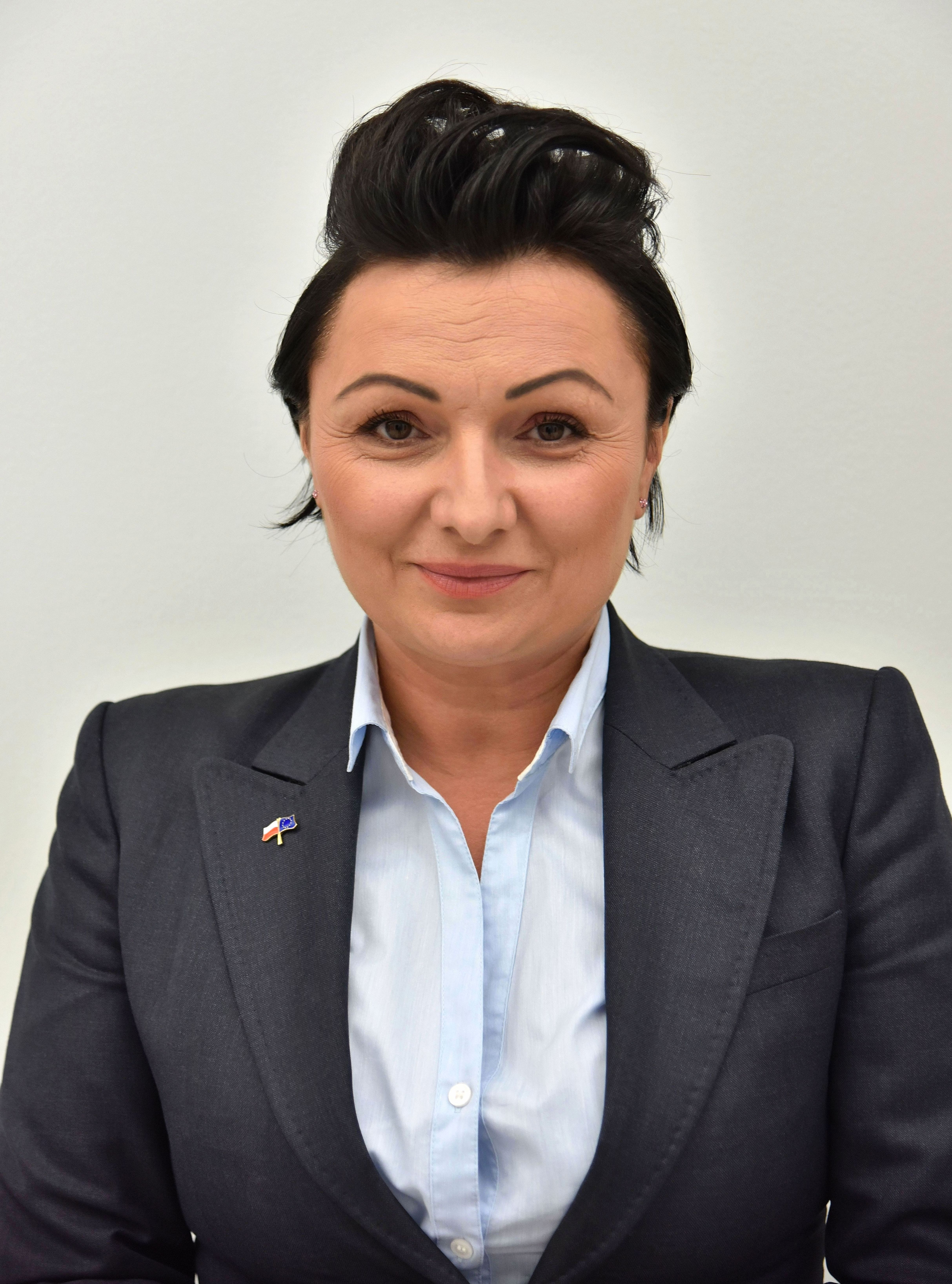 Polish MP Monika Wielichowska in the Sejm